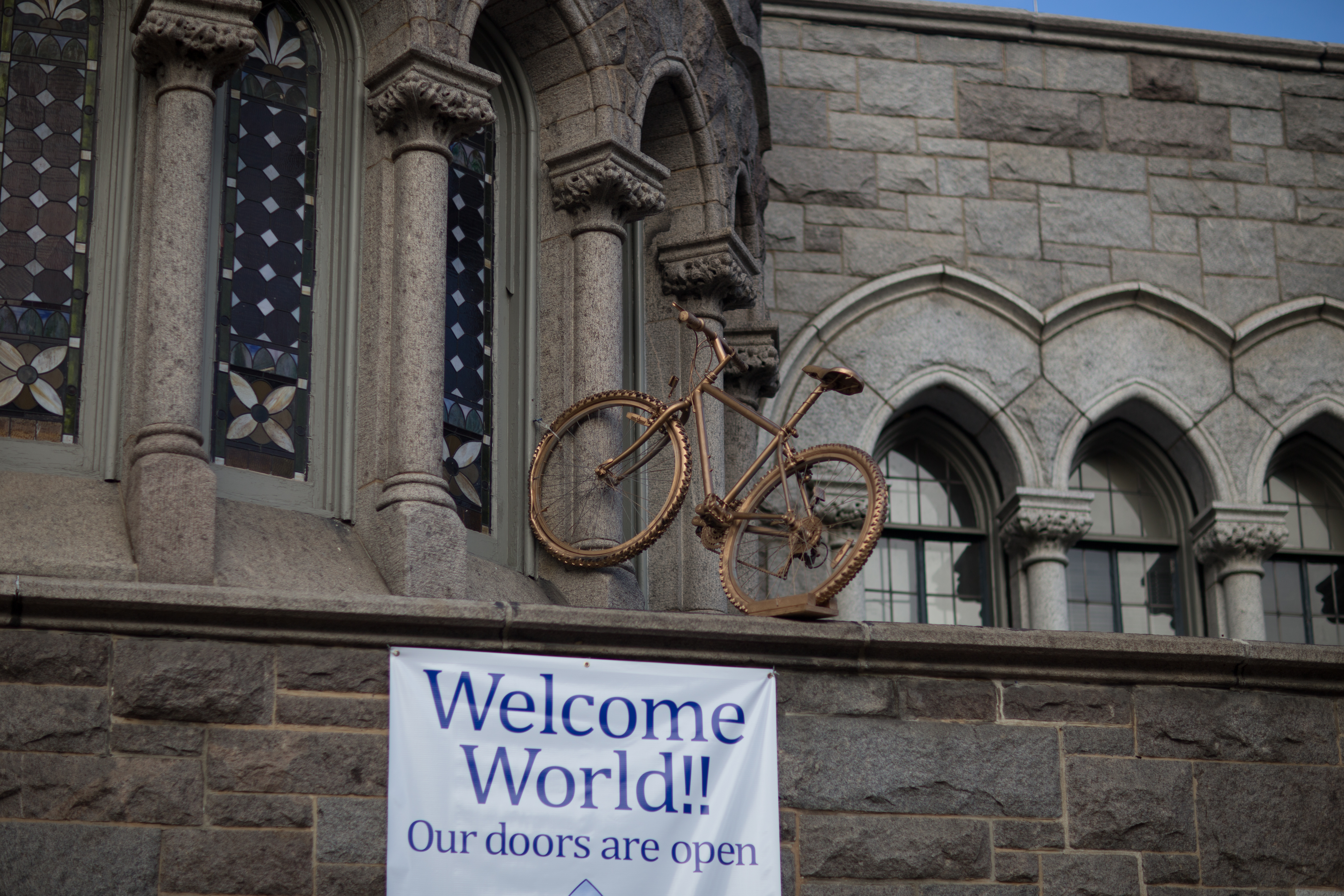 IMG_1906.jpg Road race course training of the 2015 UCI Road World Championships in Richmond, USA